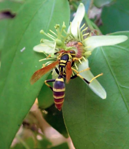 Adult Polistes crinitus wasp. Isla de Culebra, Puerto Rico